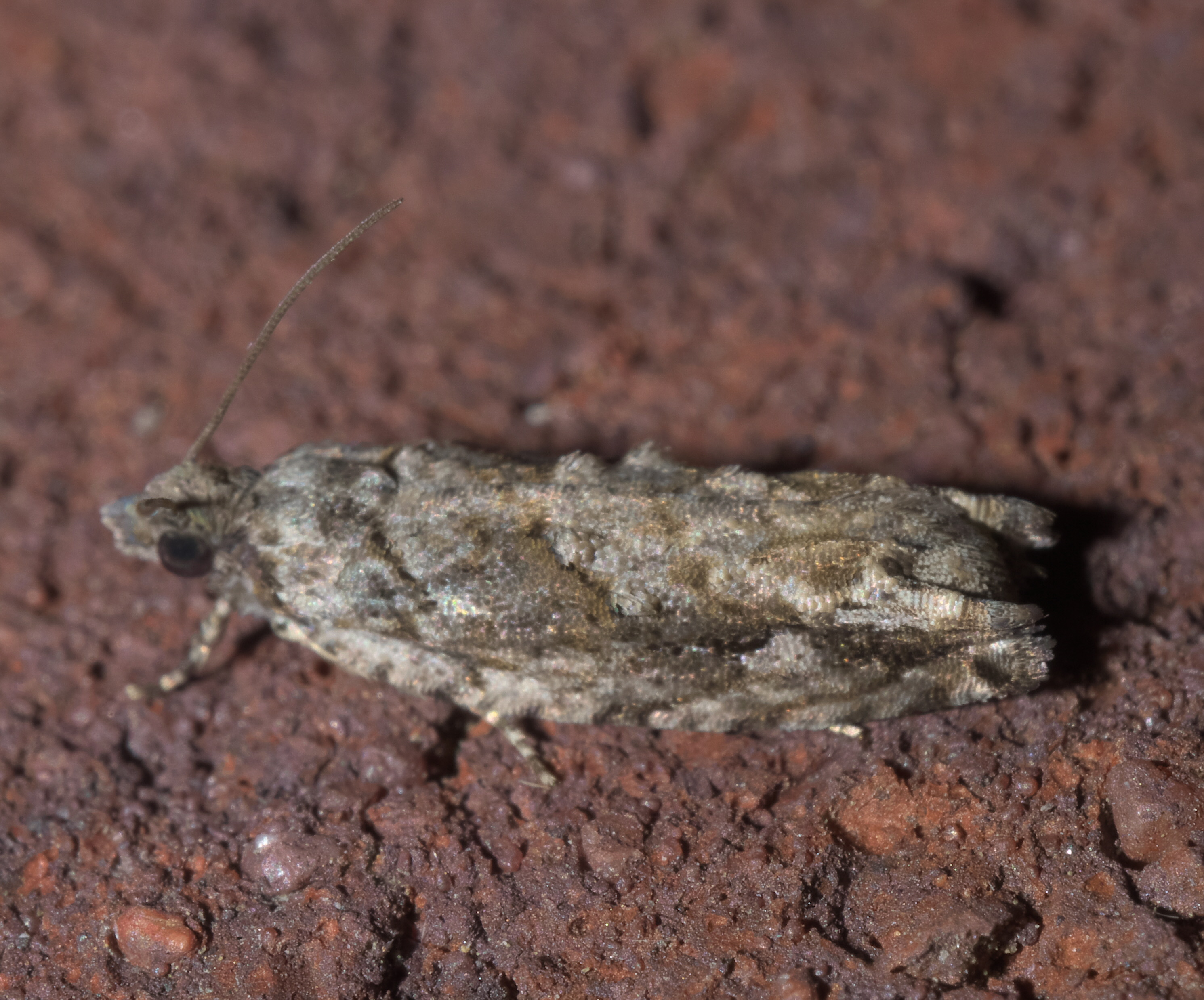 Gretchena bolliana, pecan bud moth, Size: 8.6 mm, ID Confidence: 87